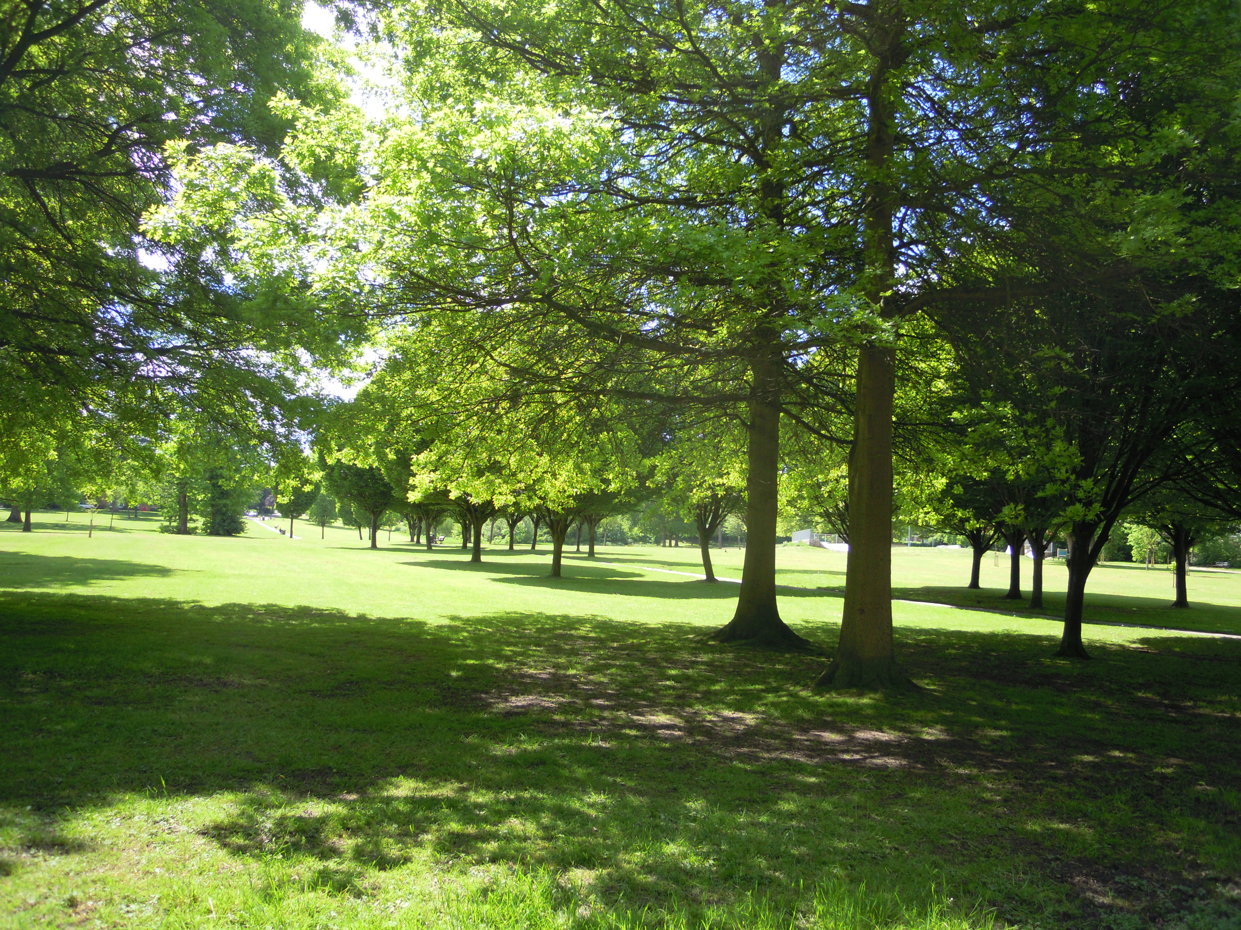 The Major's Walk path running across Manor Park in Aldershot in Hampshire